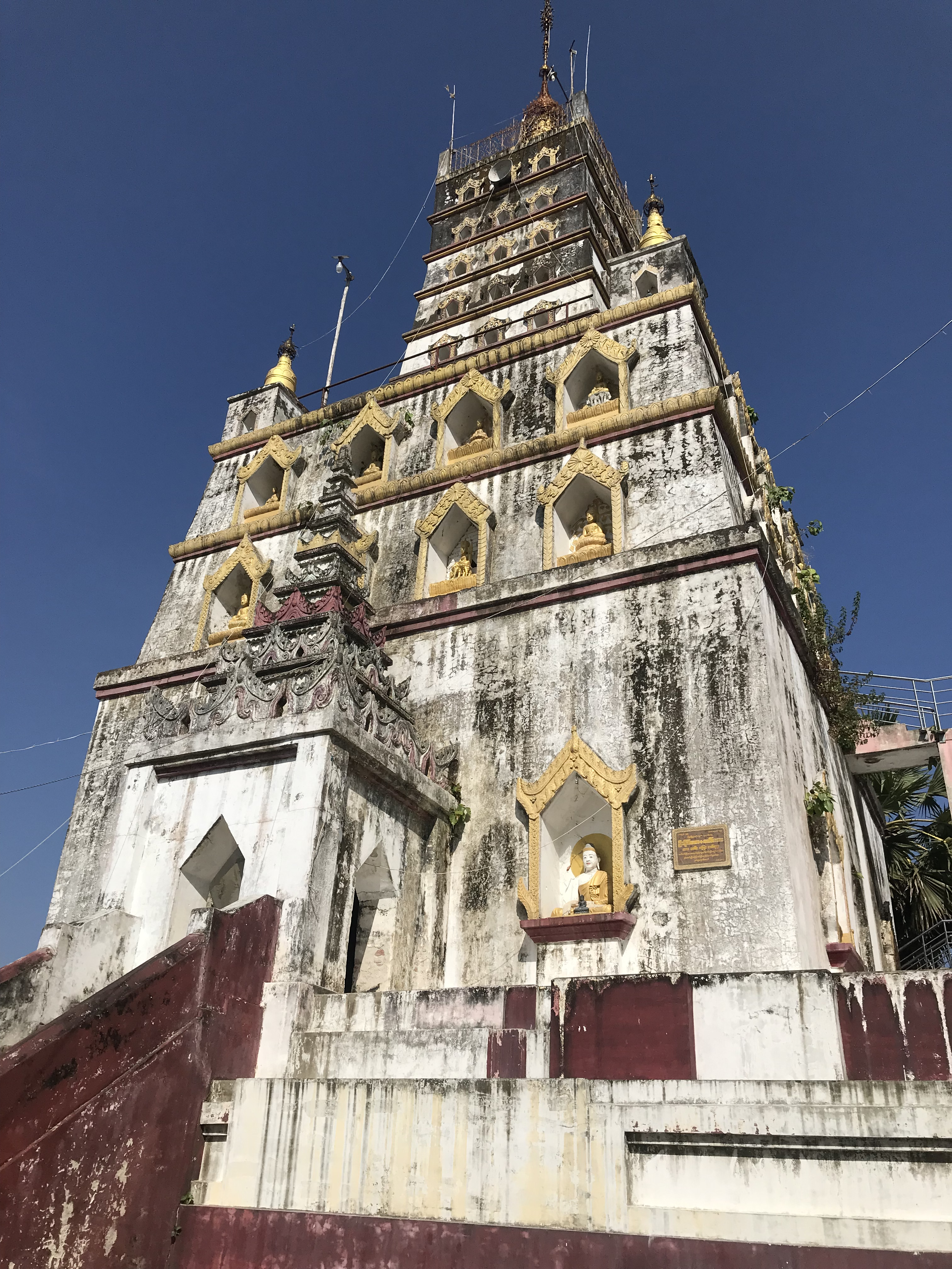 ဖောင်တော်ဦးဘုရား